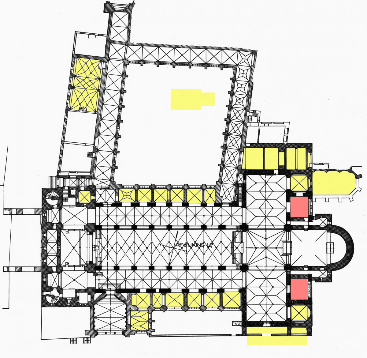 Locator map of chapels of the Basilica of Saint Servatius in Maastricht, the Netherlands. This map by an unknown author was first published in 1926 in Van Nispen tot Sevenaers De monumenten in de gemeente Maastricht, Deel 1, and donated to Wiki Commons by Rijksdienst voor het Cultureel Erfgoed on 7 January 2013. All colouring and other edits are by Kleon3. In yellow all 17 chapels of Sint-Servaasbasiliek in past and present. In red the east portals which were used in the 19th and 20th centuries as devotional chapels.